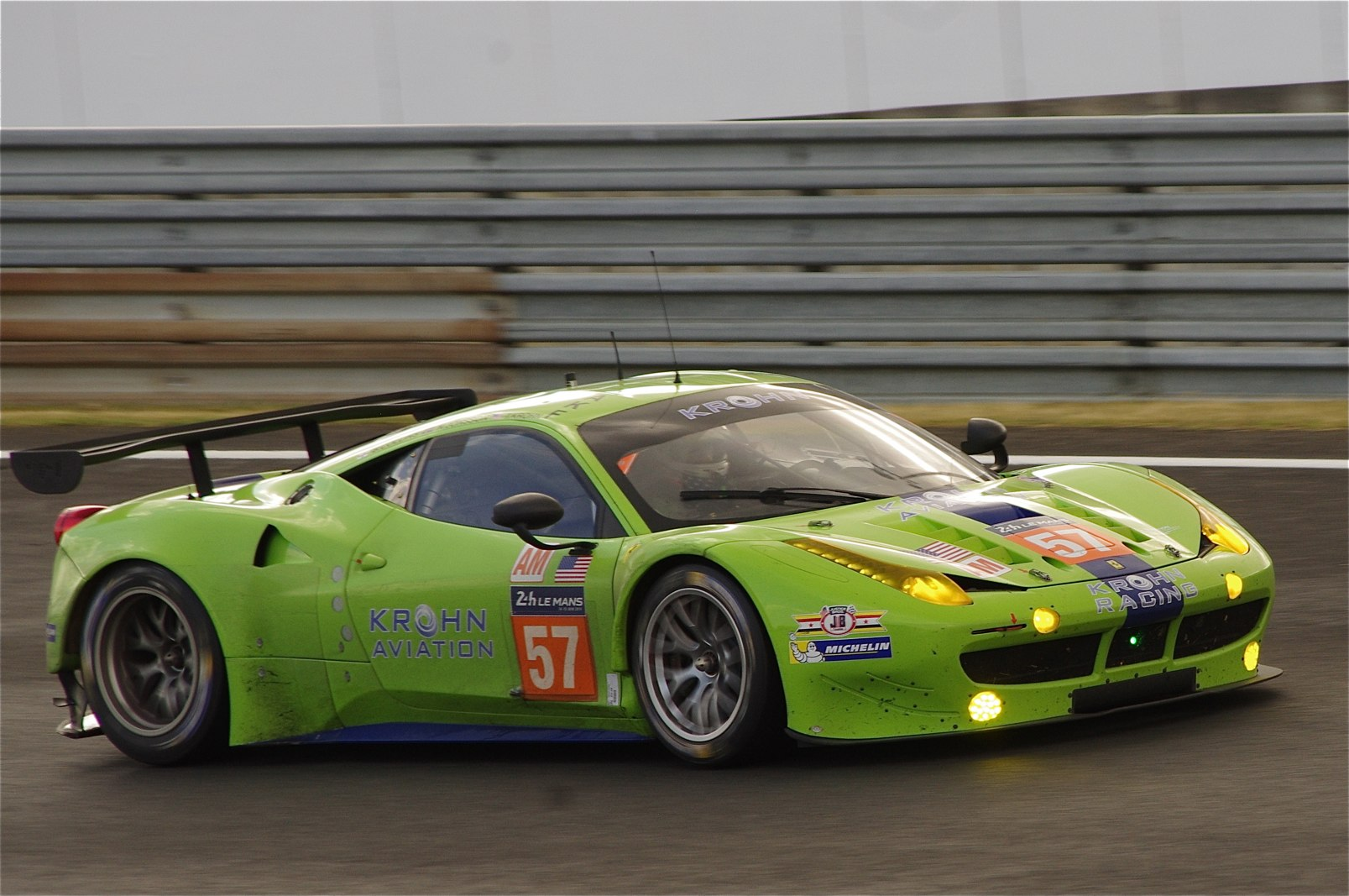 The #57 Ferrari 458 Italia entered by Krohn Racing at 24h of Le Mans 2014